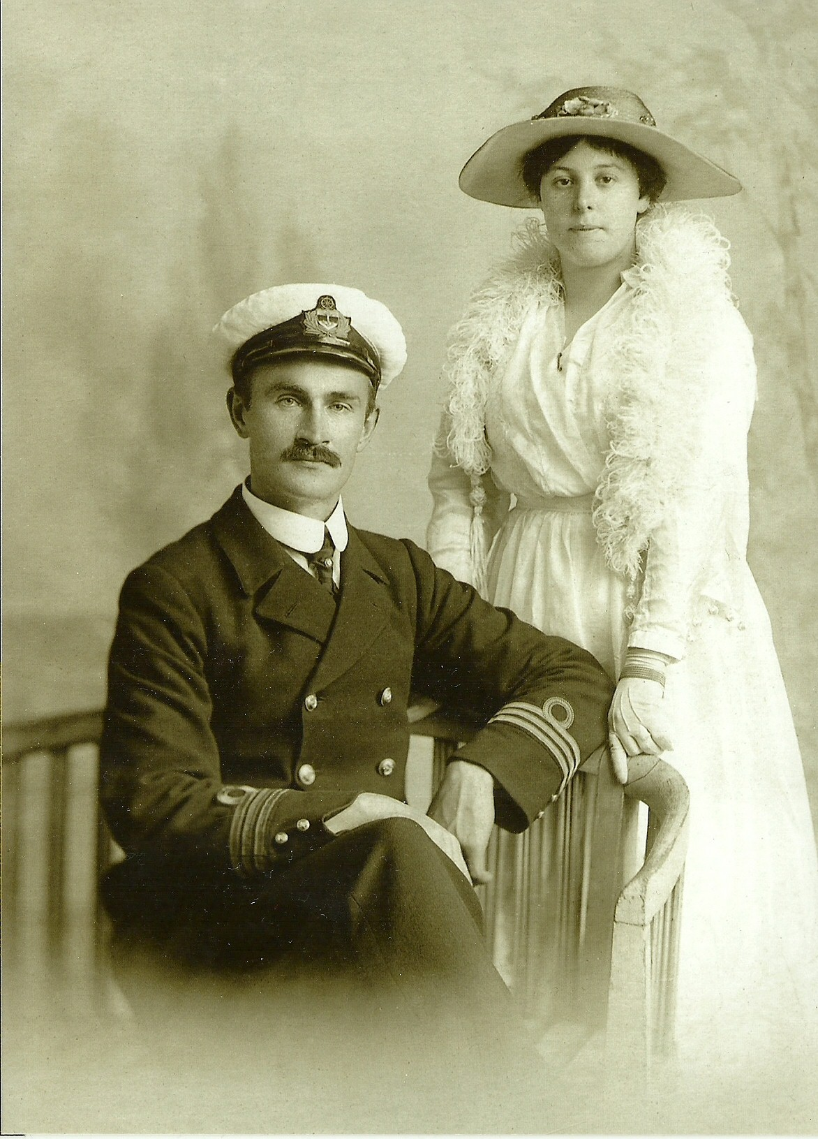 Estonian sea captain Peeter Ilus and his wife Elisabeth Ilus (daughter of Thomas, lord of Wales).